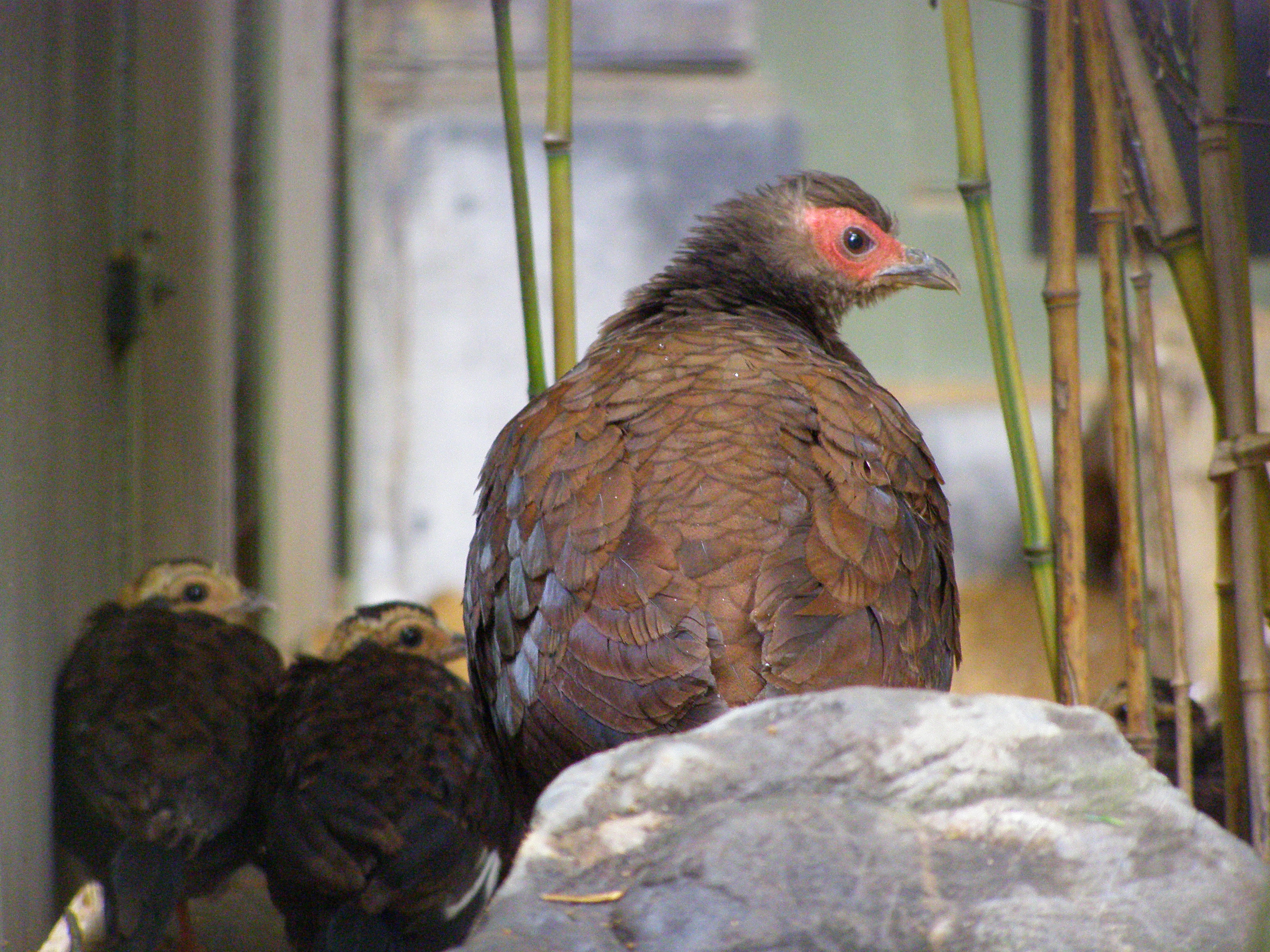 Edwards Pheasant - Lophura edwardsi They are having a hard time in the wild , habitat loss etc , you know the story... These are born in the Antwerp zoo , 2 of the 4 little ones are visible. They almost didn't qulify for the group , less then 250 individuals. Totals males 108 females 65 unknowns 19 born in the last six months:12 But breeding them seems not that easy.Edward's pheasant